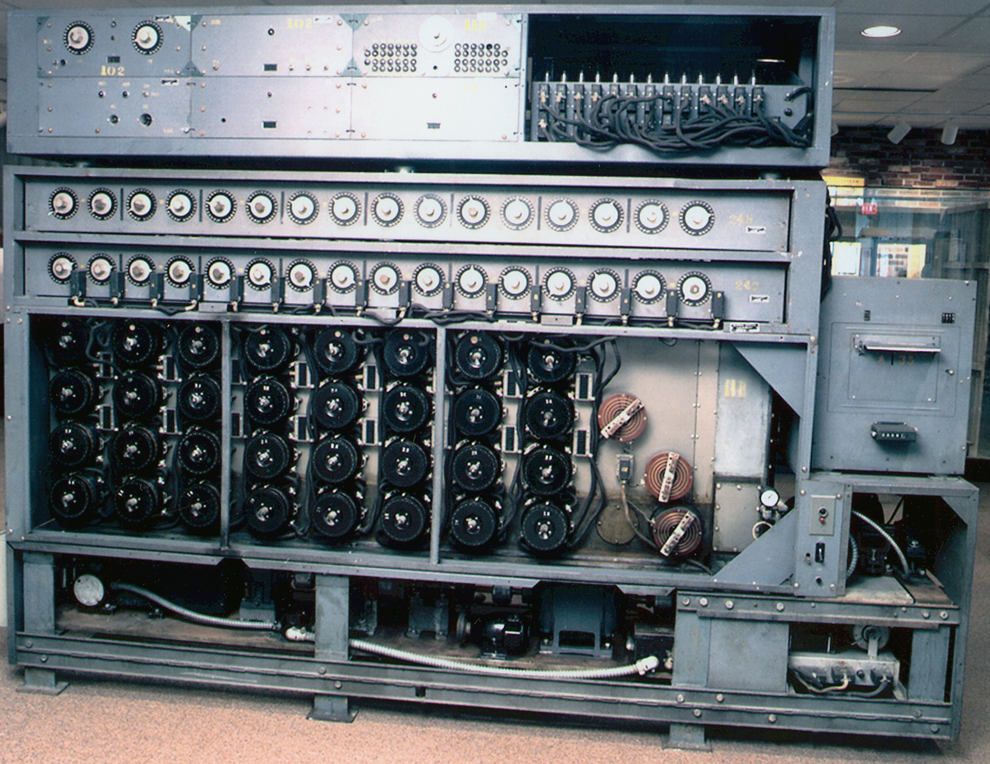 US Navy version of Turing-bombe was used against the German cipher machine Enigma-M4 (from english Wikipedia).